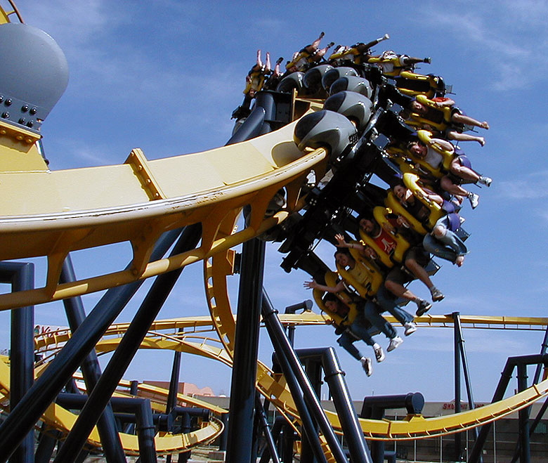 Inverted coaster 'Batman the Ride' at Six Flags over Texas.